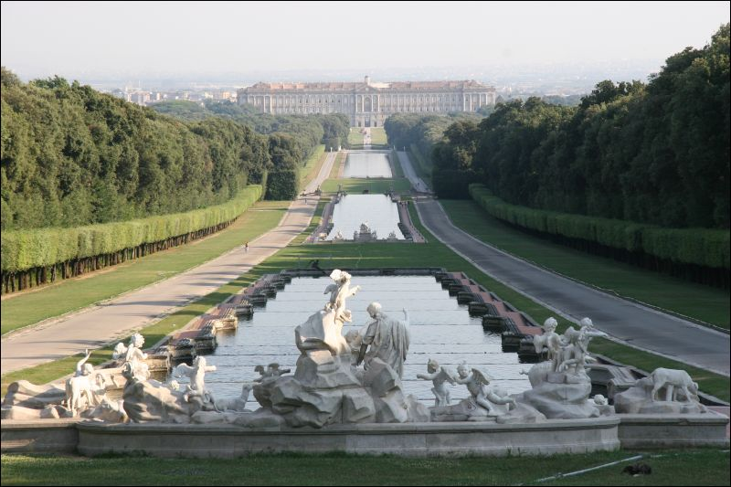 View of the northern façade of the Royal Palace of Caserta, seen from tne monumental fountain passeggio.